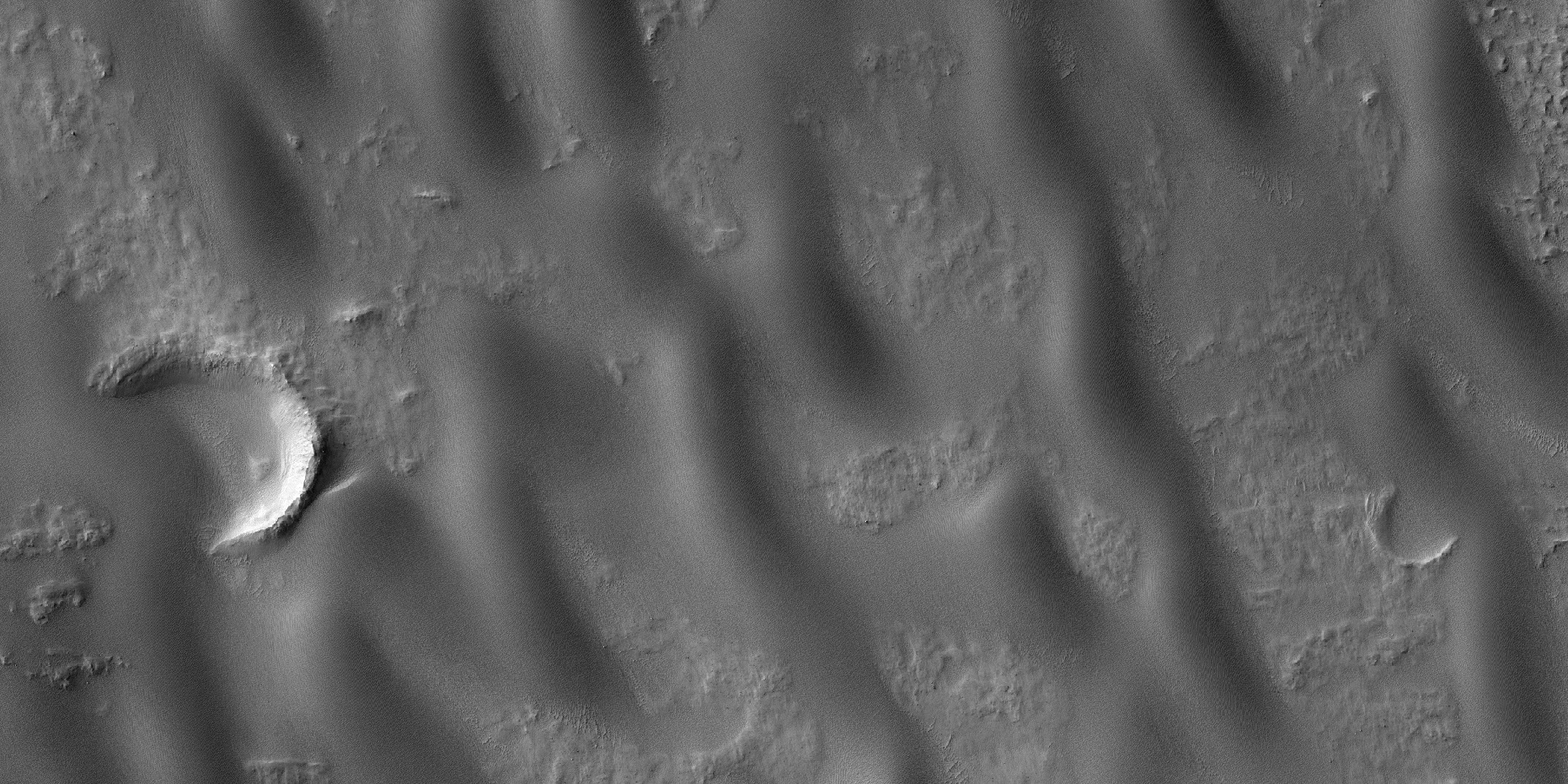 Dunes in Phaethontis quadrangle, as seen by HiRISE under HiWish program